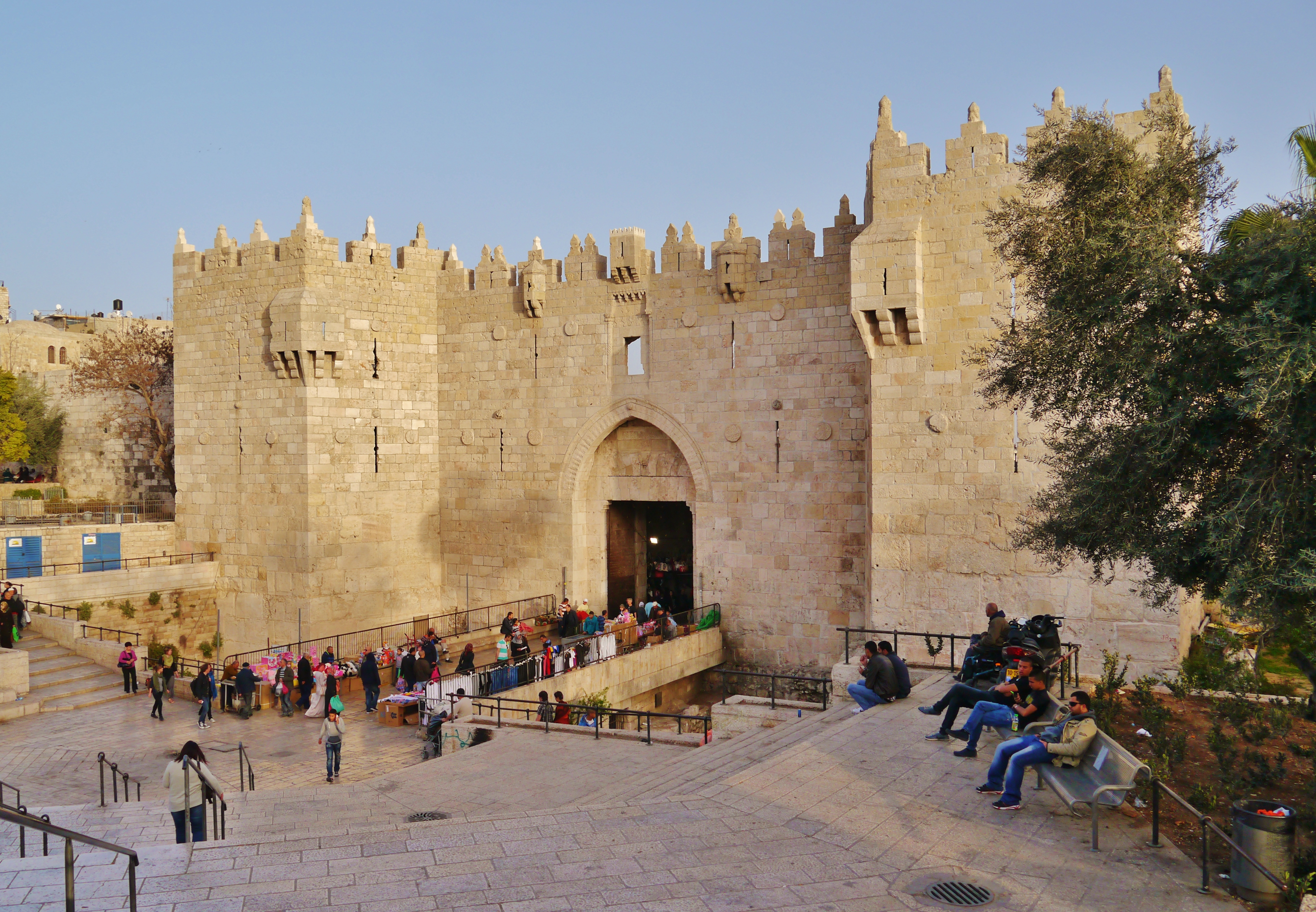 Damascus Gate, Jerusalem, Israel